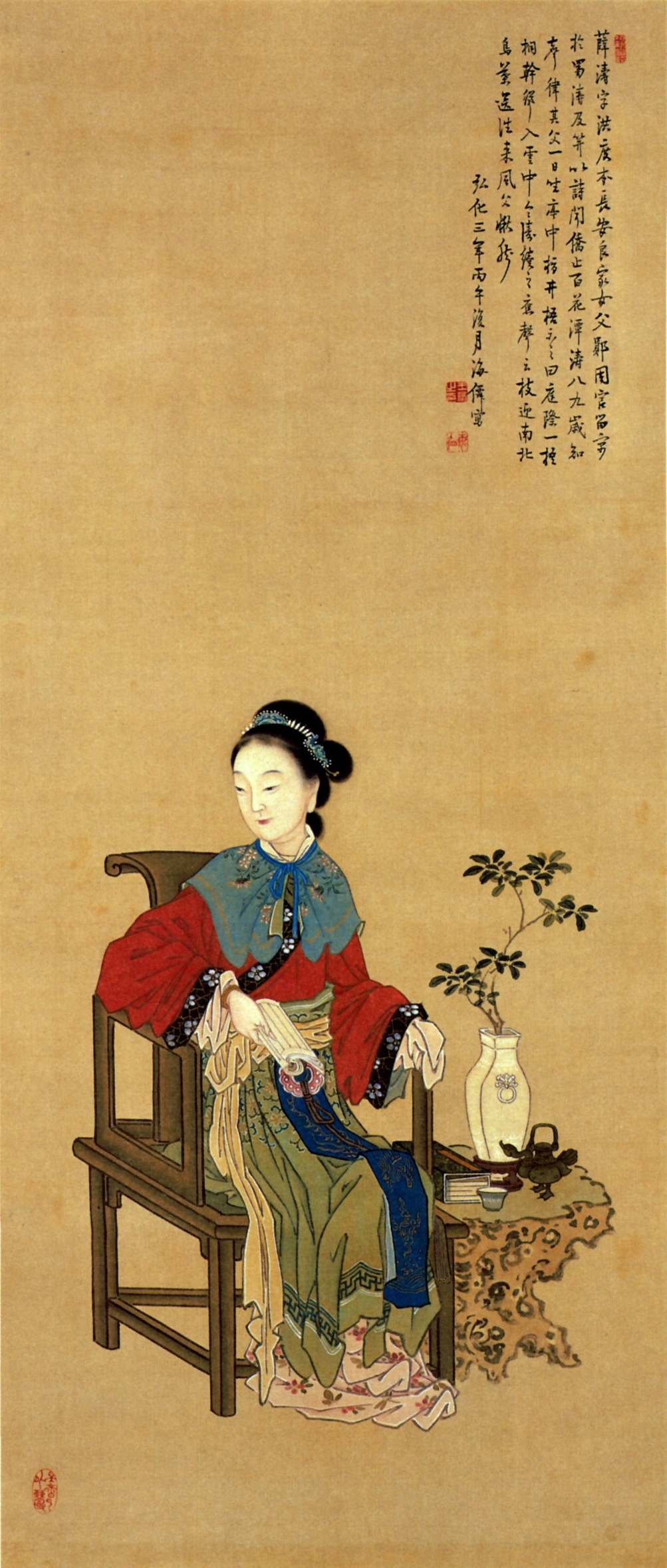 Oda Kaisen,Bo Tao,colors on silk,hanging scroll,Rakuto Ihoku kan